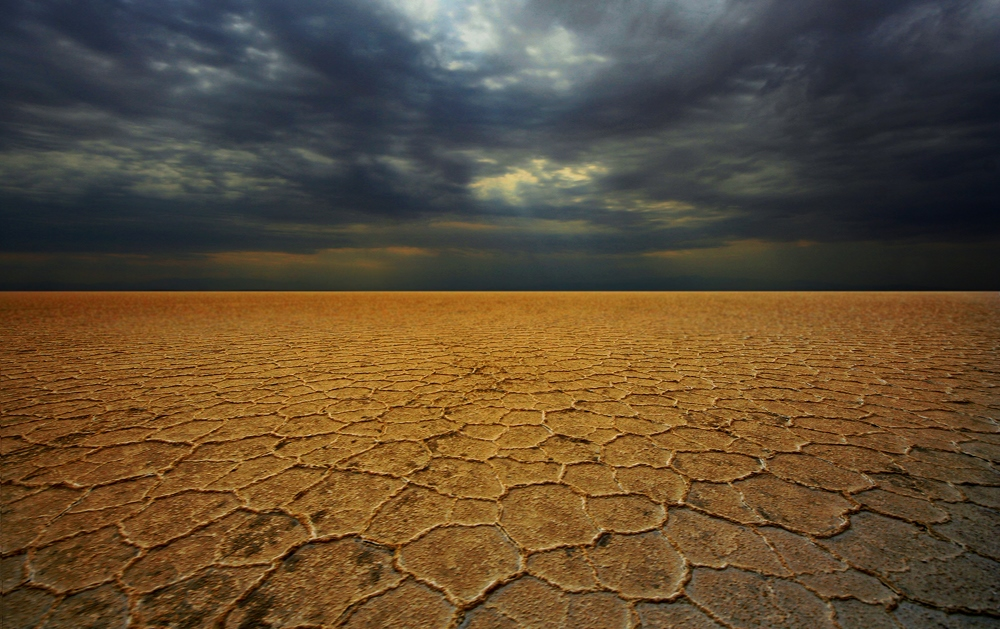 Maranjab desert is located by Aran va Bidgol, a city in Isfahan province, Iran.